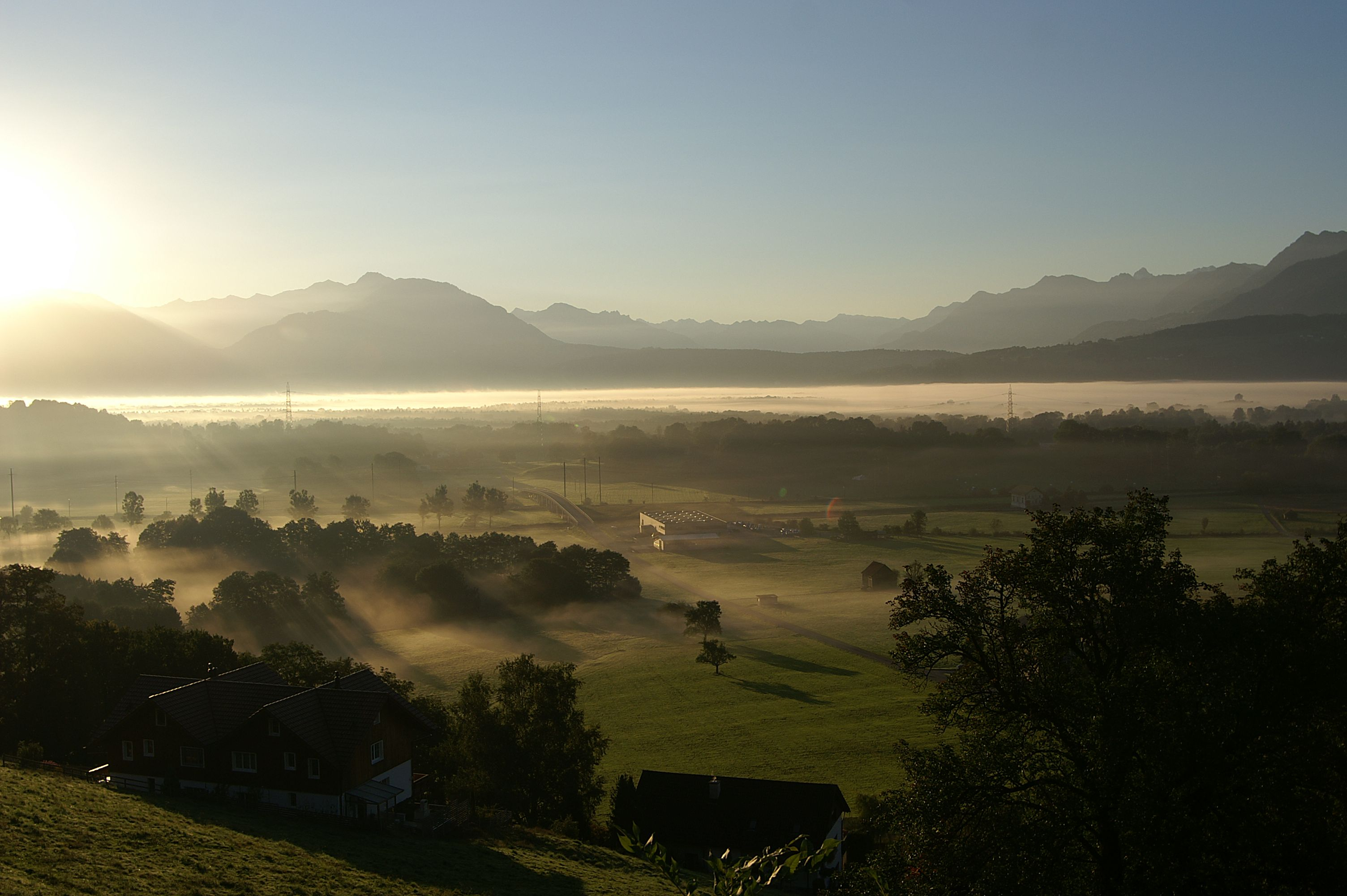 The morning fog in the Rhine Valley between Lienz / Altstätten and Rüthi.